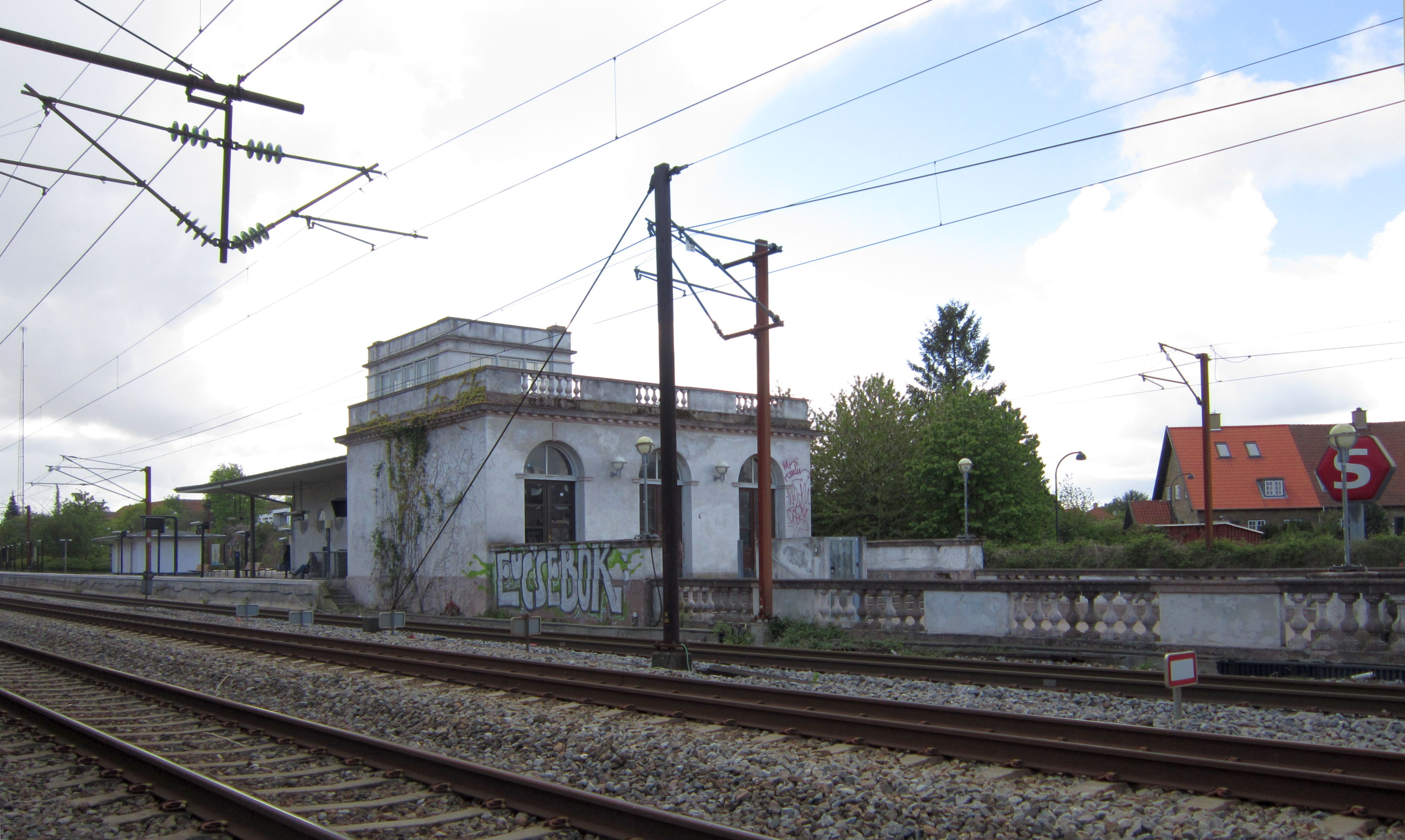 Ordrup station